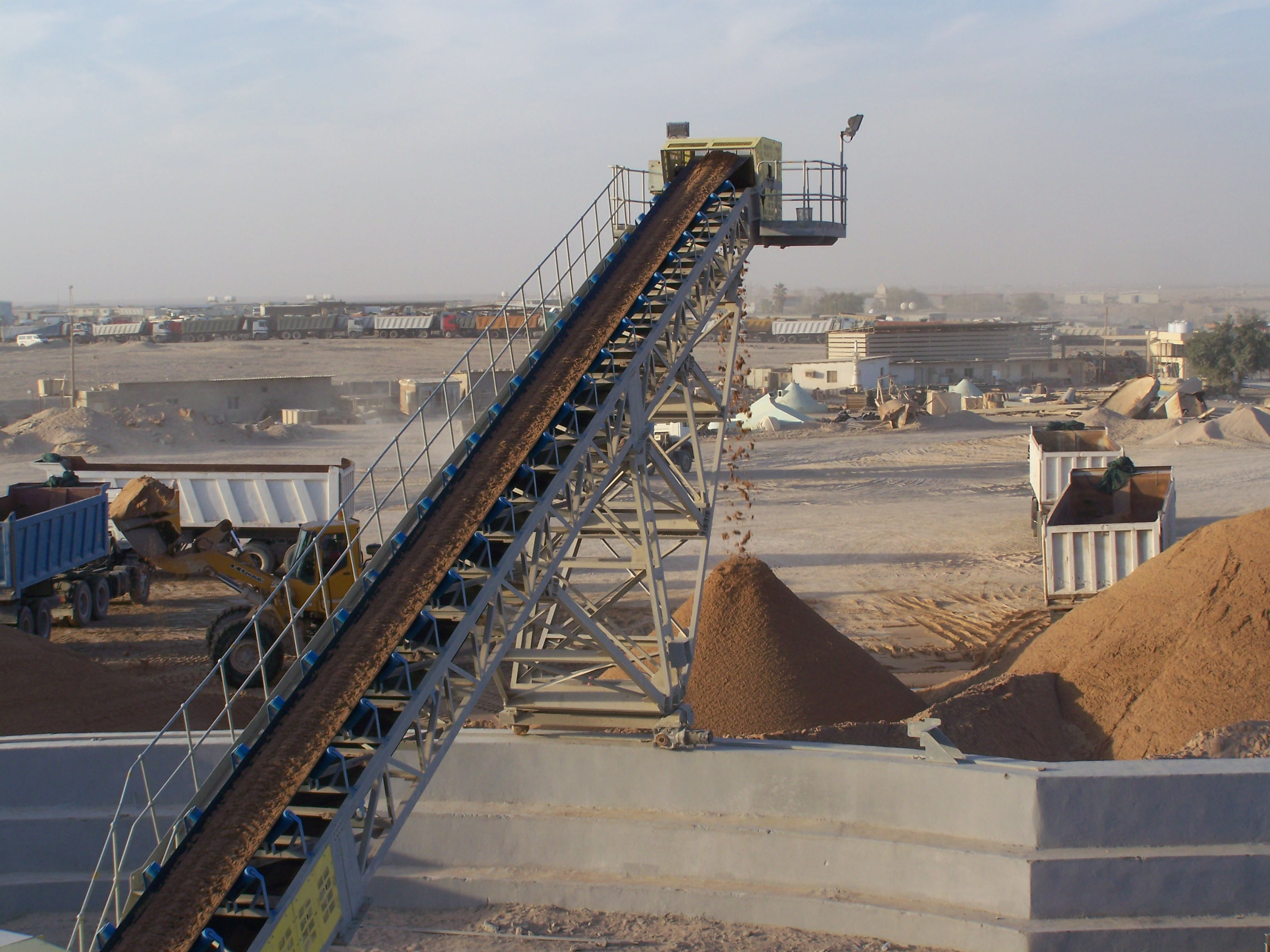 Sand stockpile and conveyor at QPMC s Sahara Washed Plant in Al Karaana, Qatar in 2009.